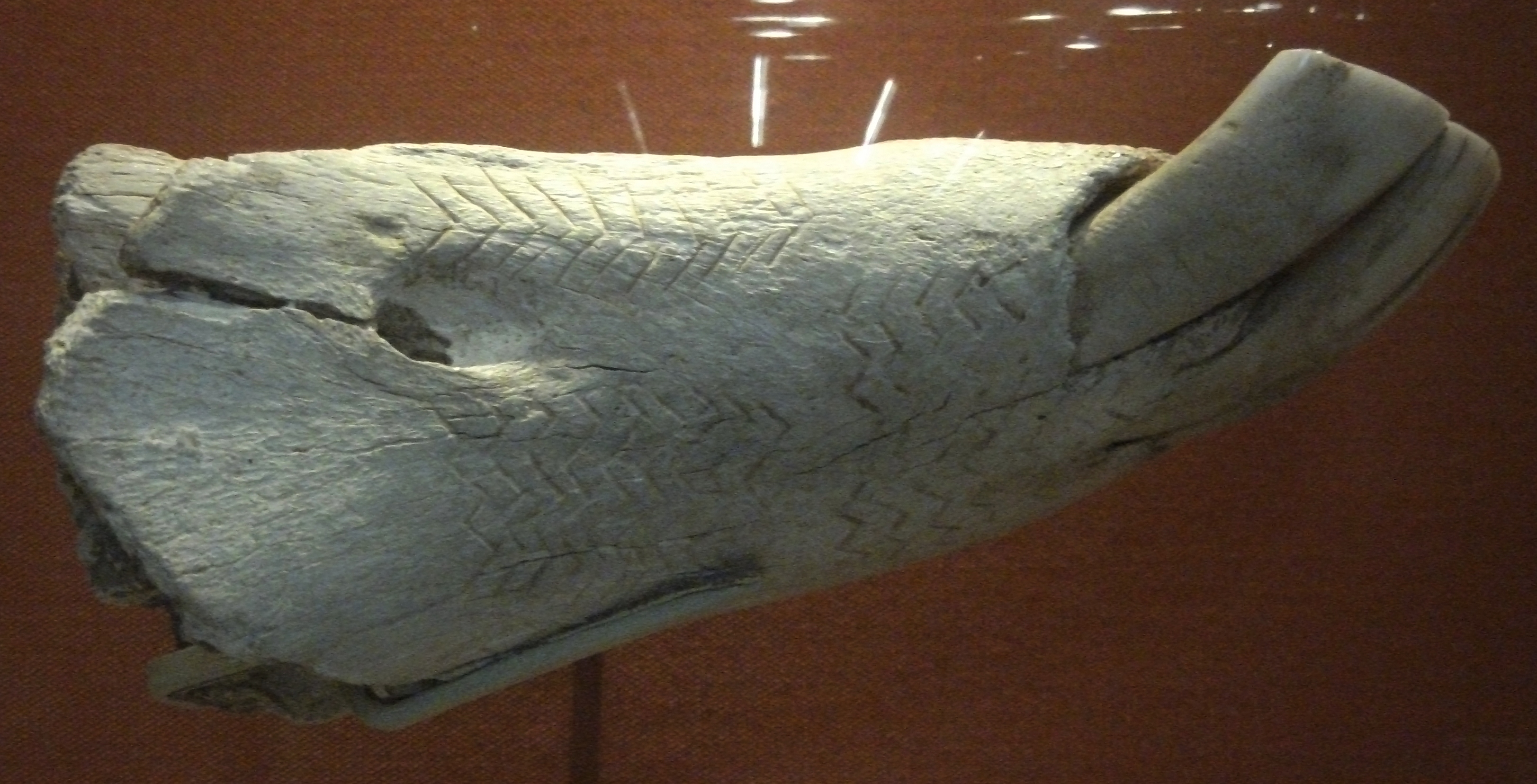 Decorated horse jaw, Decorated horse jaw, Late Upper Palaeolithic, about 10,000 years old From Kendrick's Cave, Llandudno, Gwynedd, Wales